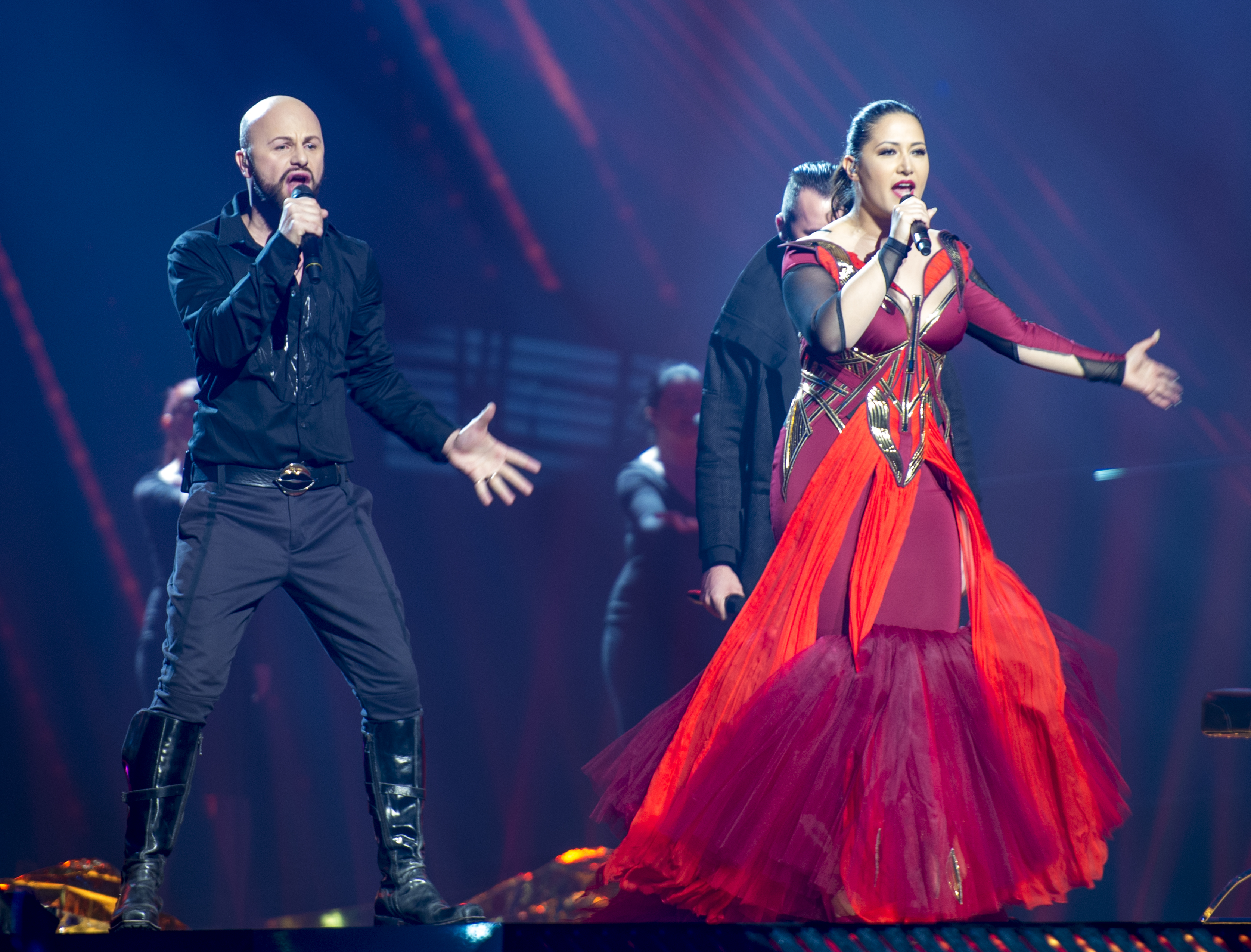 Dalal & Deen feat. Ana Rucner and Jala representing Bosnia and Herzegovina with the song "Ljubav je" during a rehearsal before the first semi final of the Eurovision Song Contest 2016 in Stockholm. (Help translate this text)